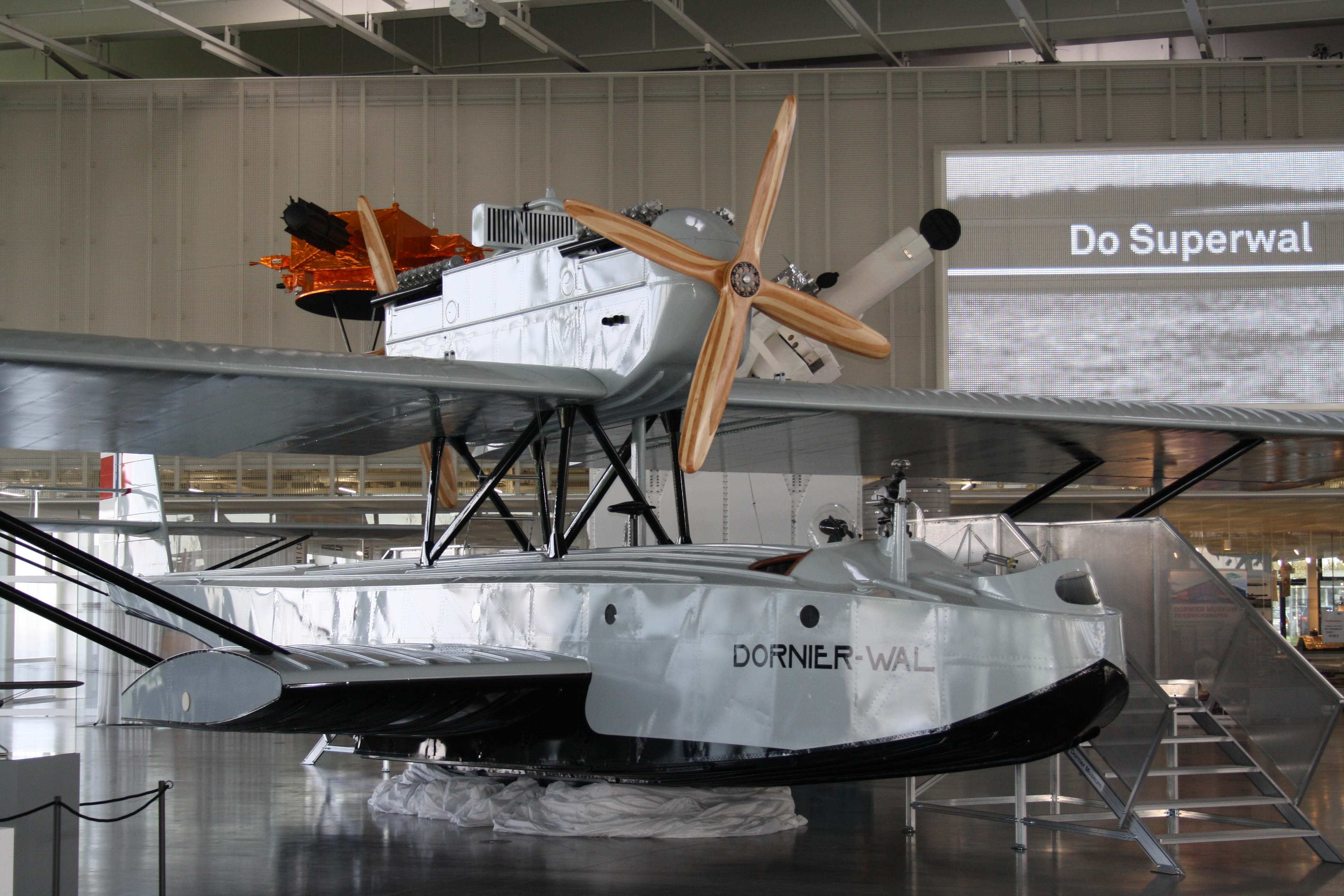 The replica of the flying boat Dornier Wal N25 at the Dornier Museum Friedrichshafen.